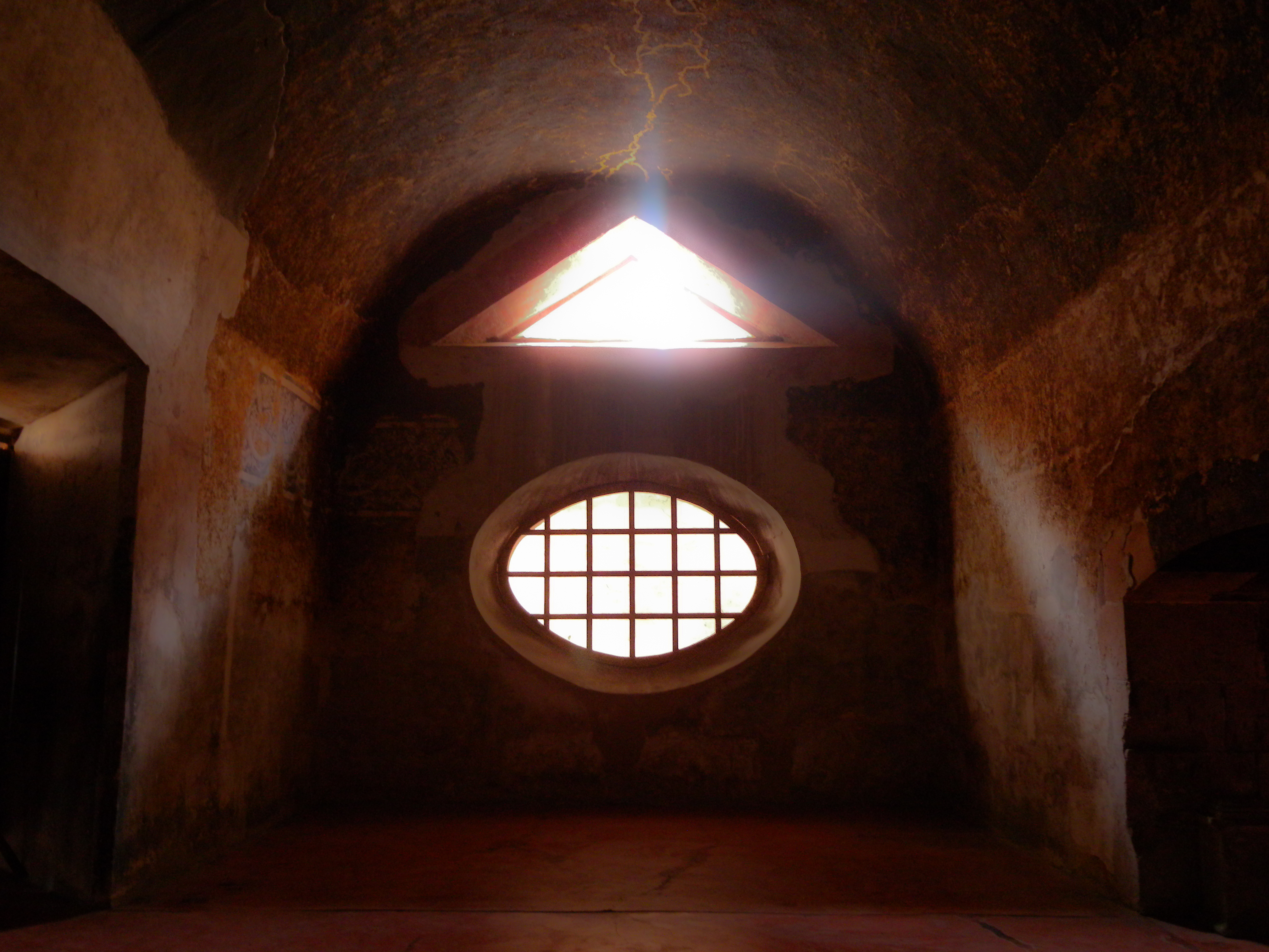 Actopan, Hidalgo. México